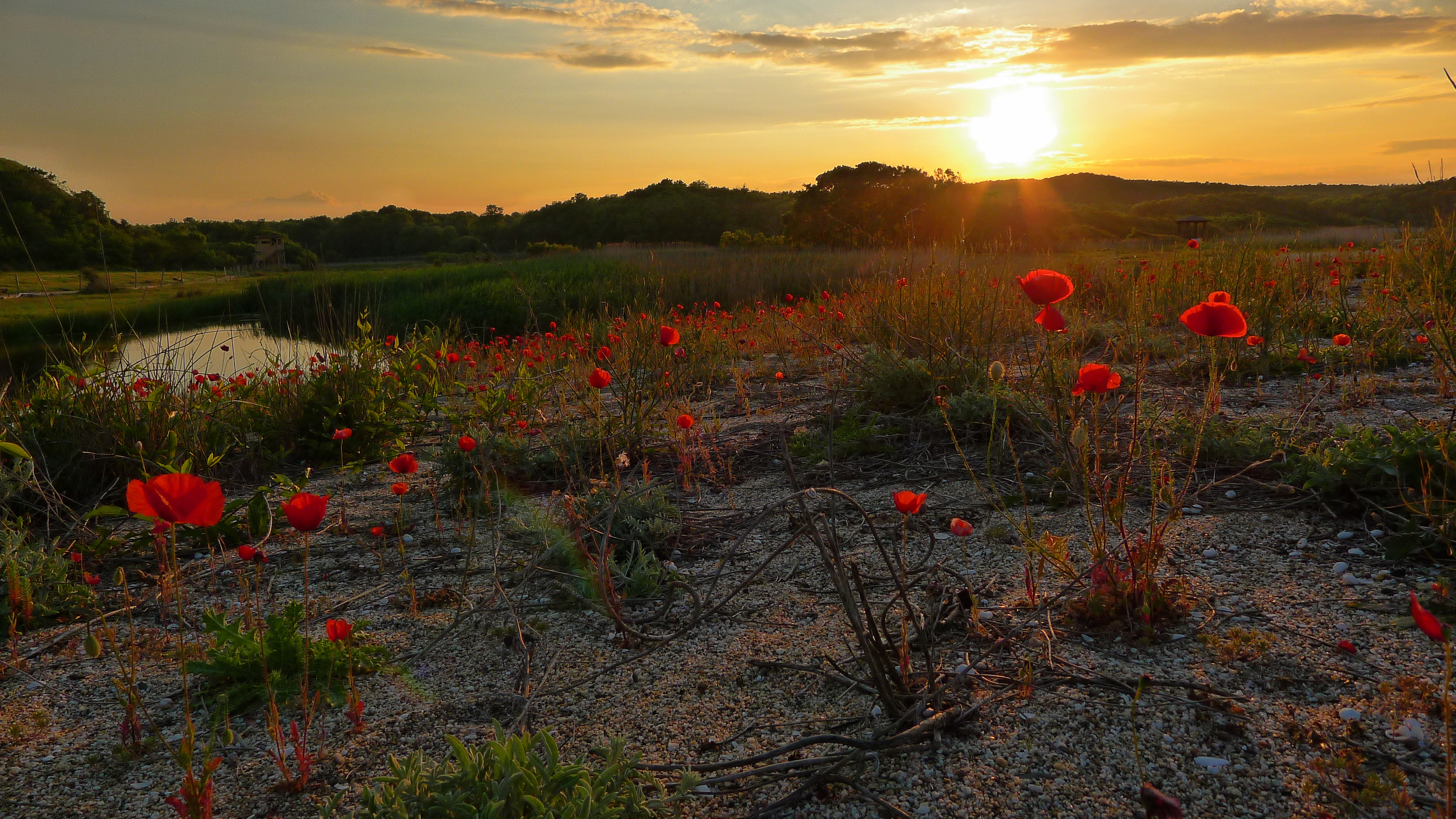 Protected locality Veleka River Mouth